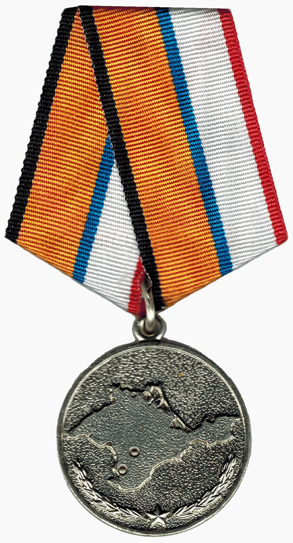 Medal «For the return of the Crimea», avers